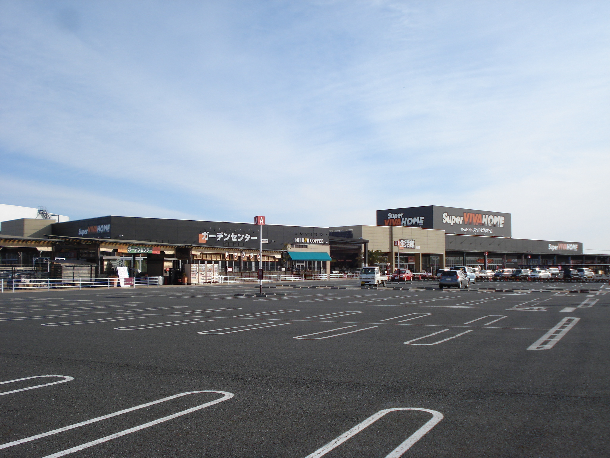 Super Vivahome Kazo store in the Vivamall Kazo, operated by Lixil Viva Corporation, in Kazo City, Saitama Prefecture, Japan